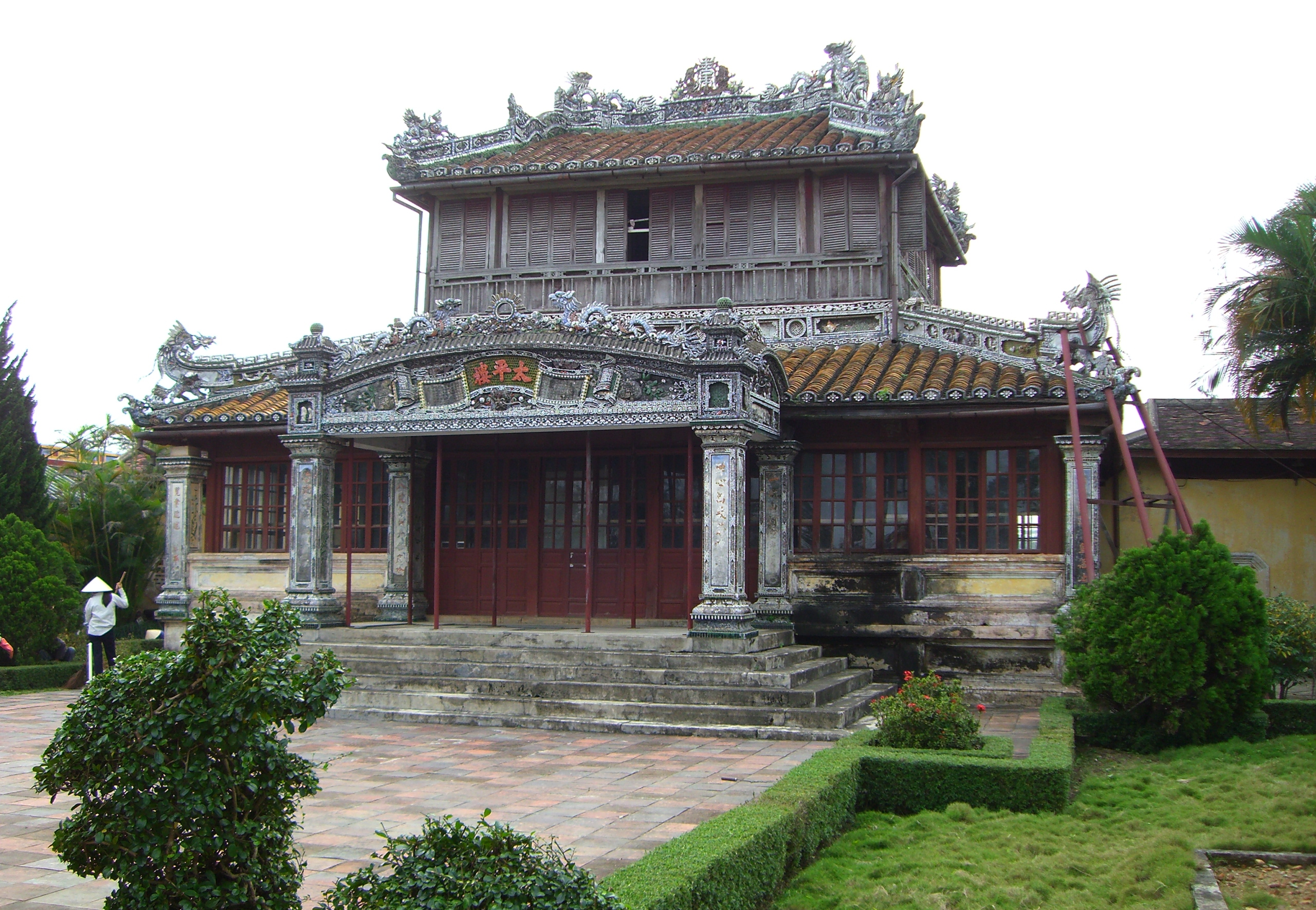 Citadel of Huế